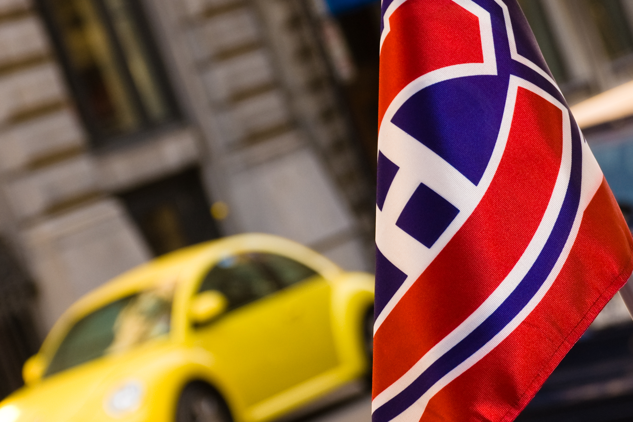 Official Montreal Canadiens flag.